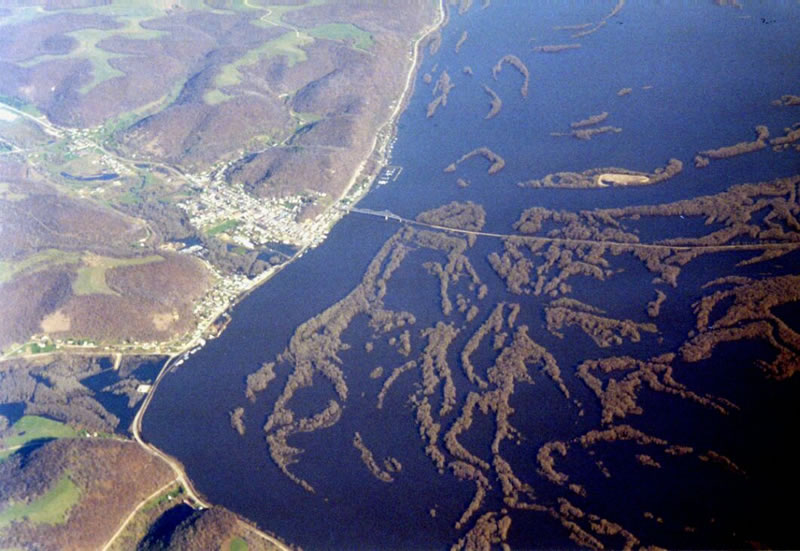 Aerial view of Lansing looking north, April 14, 2001, with the Upper Mississippi River at floodstage. The Black Hawk Bridge is visible. Big Lake is visible just upriver from the bridge and causeway.